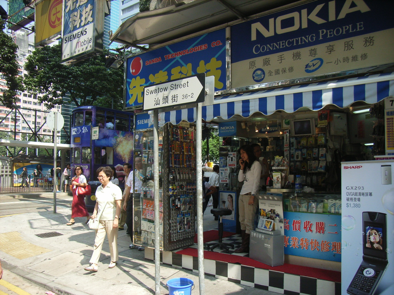 汕頭街, Swatow Street, 灣仔舊區街道 Wanchai old streets, Hong Kong. (A1 Wong East).